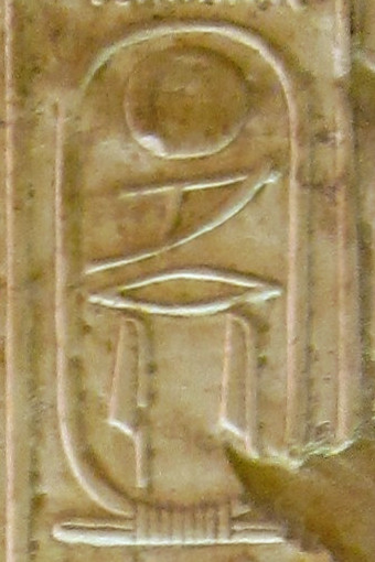 Cartouche 36, Abydos King List. Temple of Seti I, Abydos, Egypt